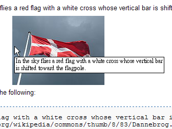 A screen shot of alt attribute to show how Internet Explorer 7 renders the alt text as tooltip text. No graphical user interface of IE7 is captured in this image.